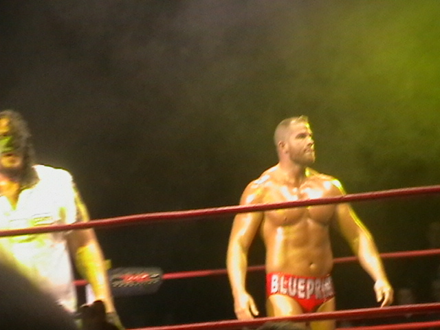 Matt Morgan and Abyss at a TNA House show in Dublin, Ireland